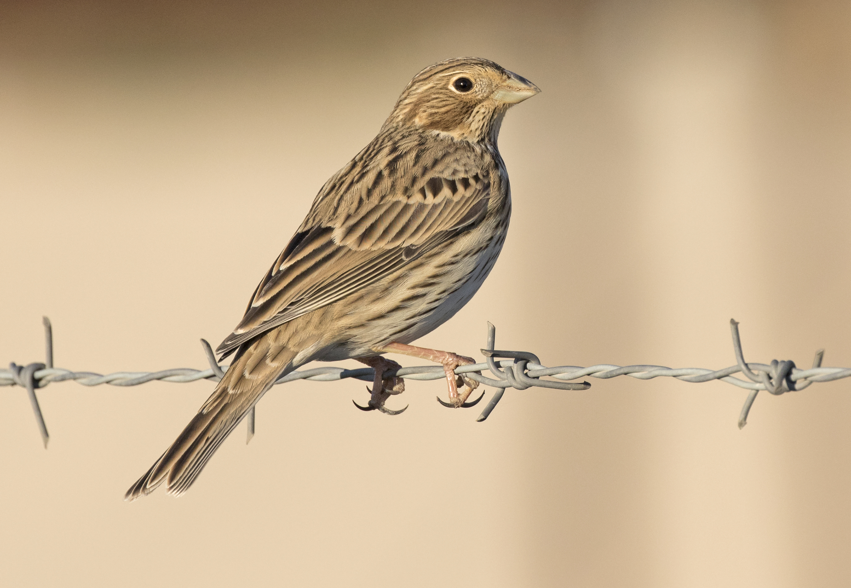 Corn Bunting (Emberiza calandra) in Afşar Village, Kahramanmaraş - Turkey.